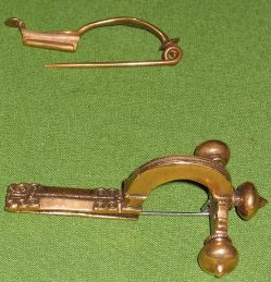 Copies of two Brooches Top: La Tène culture Bottom: Roman brooch with onion-head (4th century)